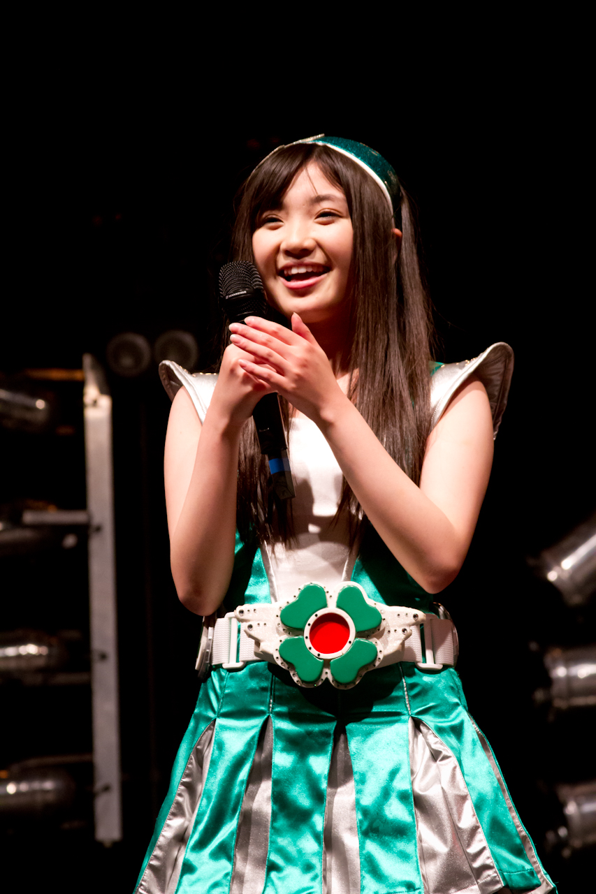 Japan Expo 13 - 2012 Cover pics by Dj ph All sets here : bit.ly/LHdWLq